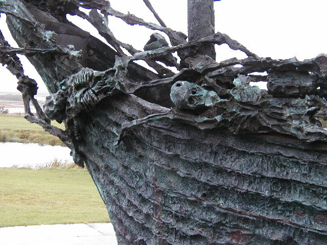 The Great Famine National Monument. Detail from the bronze sculpture by John Behan depicting a "coffin ship" carrying emigrants following the 1840s famines.